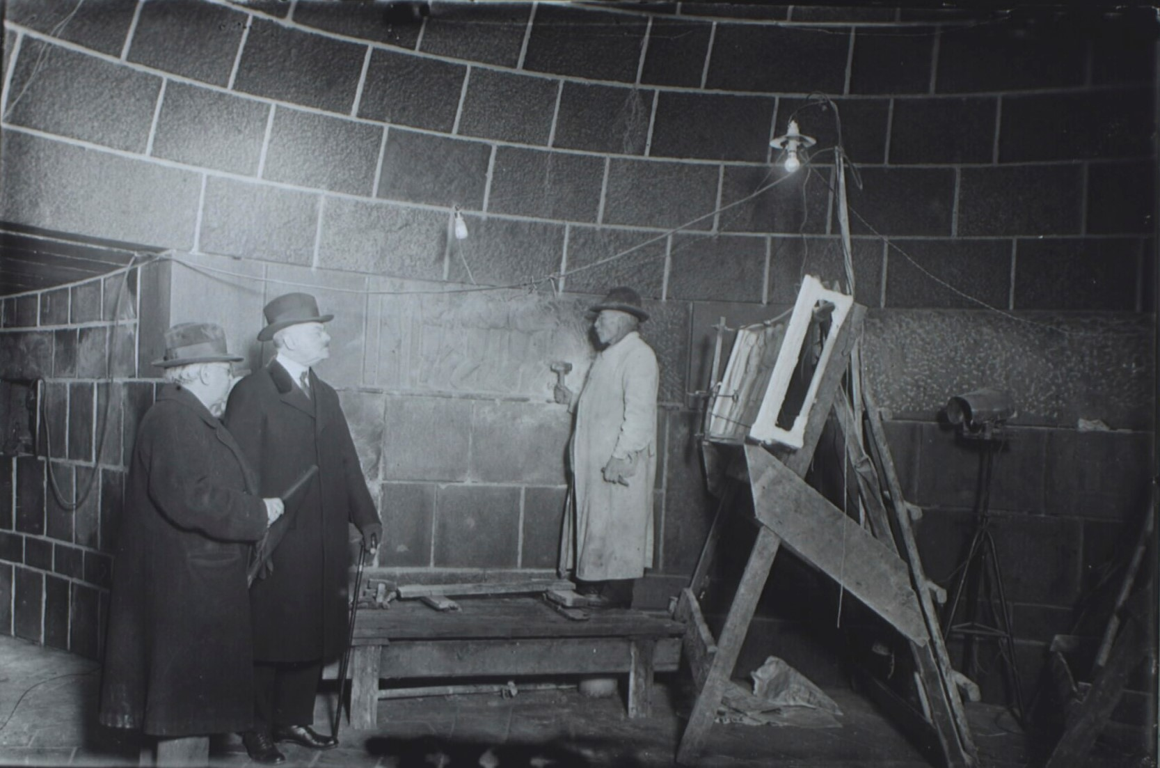 Anders Bundgaard in Mindehøken in Søndermarken under construction in Copenhagen, Denmark